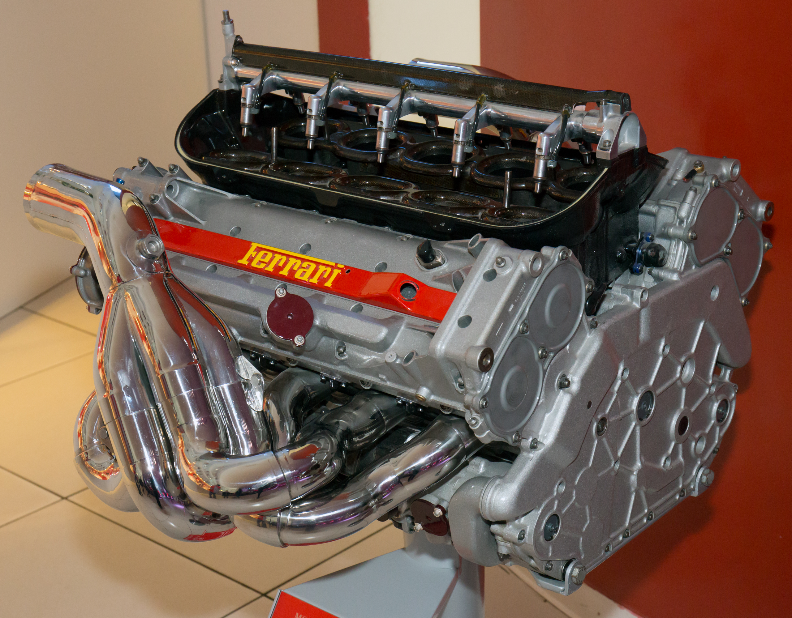 Ferrari Tipo 048 engine (1999) of the Ferrari F399